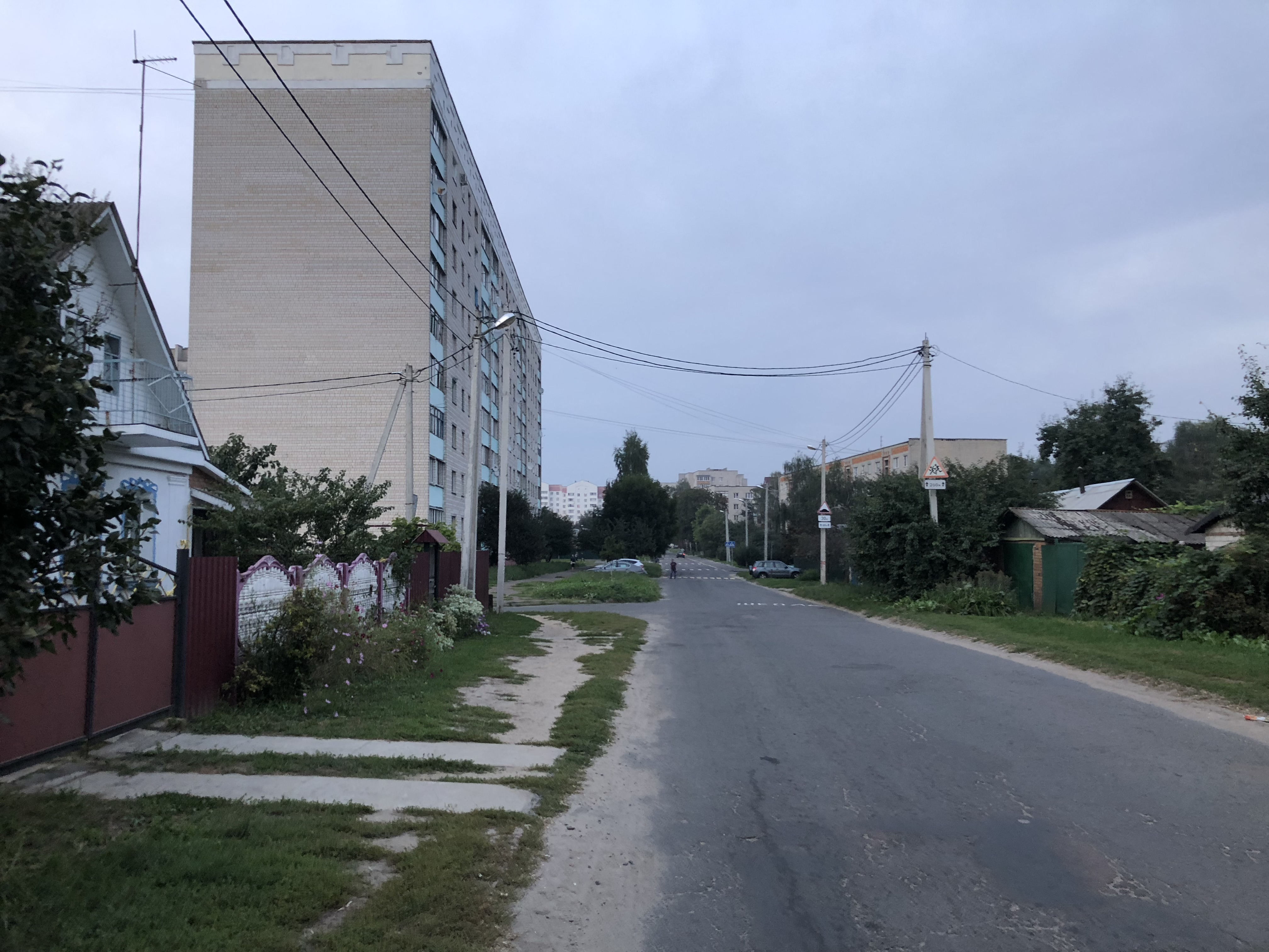 Kostukovka, Gomel Region, September 2018